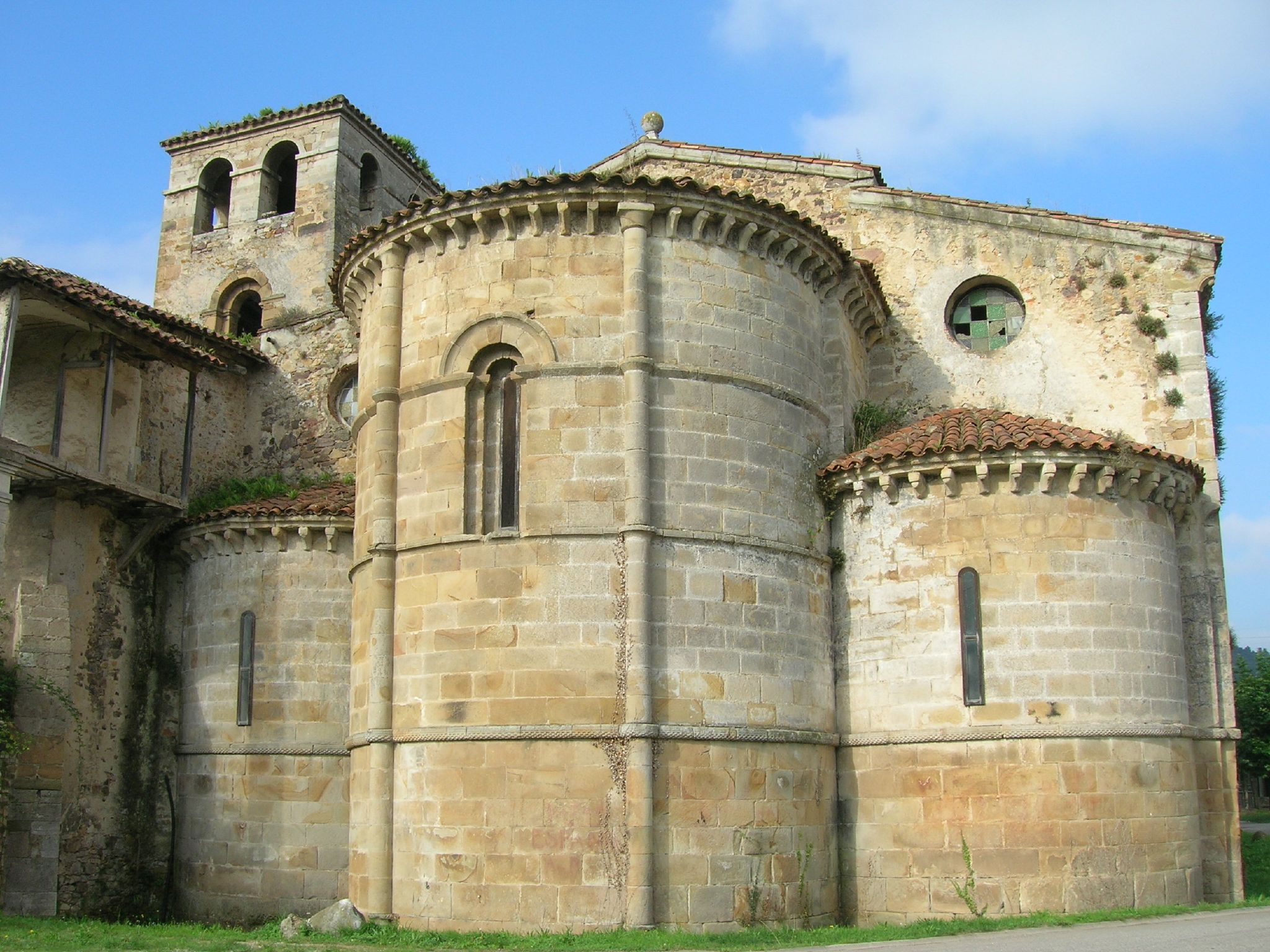 Taken from San Salvador de Cornellana, 12th century